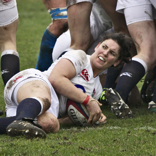 The England girls drive the Italians back to allow Sarah Hunter to get the try, on her 50th cap England 34 : 0 Italy